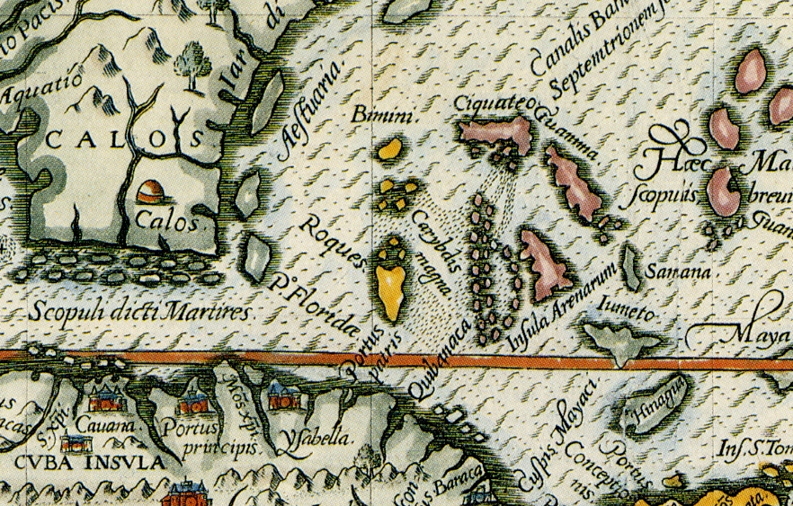 Los Roques in a 1594 map of the Reales Audiencias de Guatemala, Santo Domingo, Panamá y Nueva Granada, Isla de Cuba y la Florida. Map Section